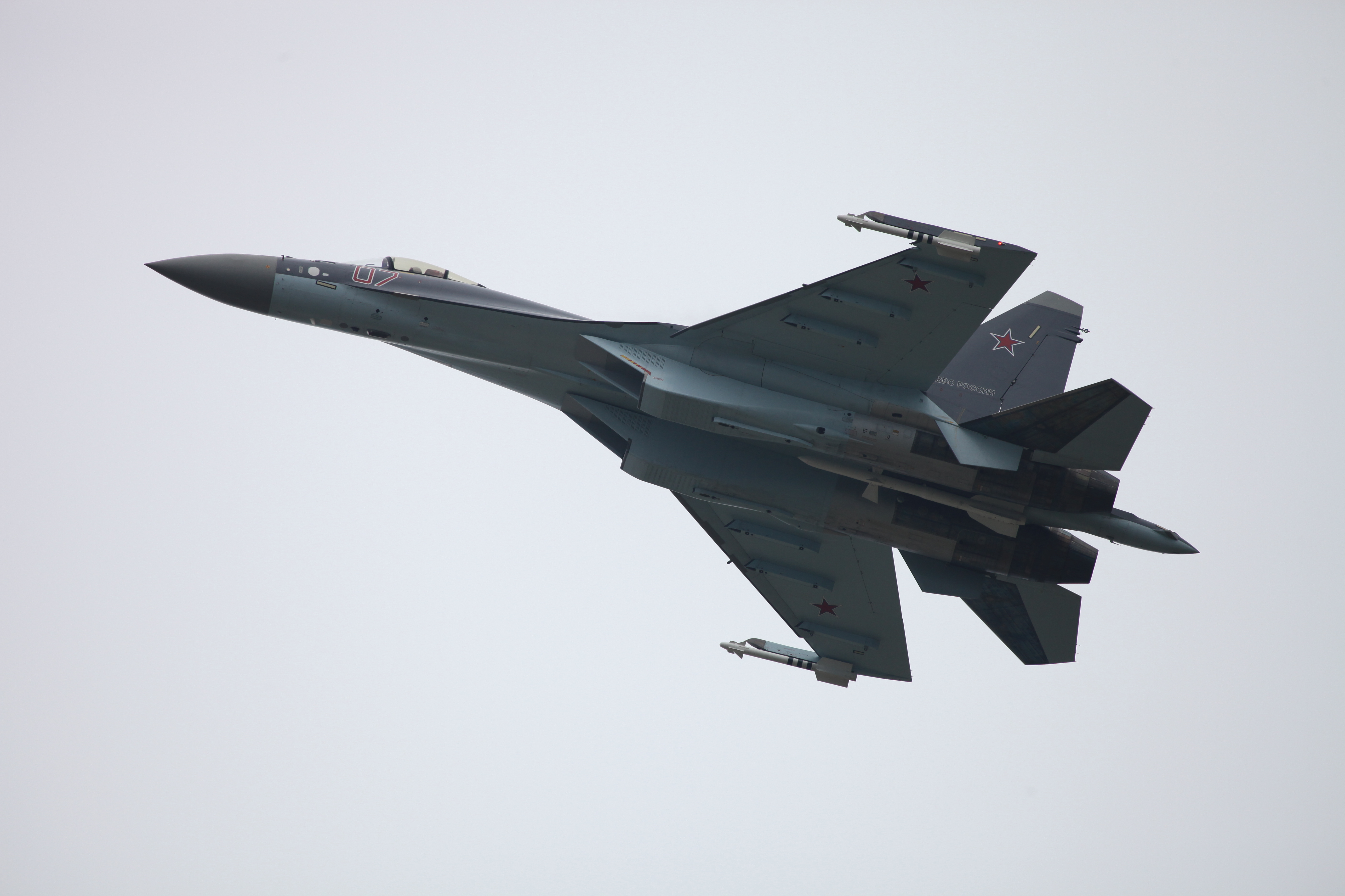 Su-35S at the MAKS-2013